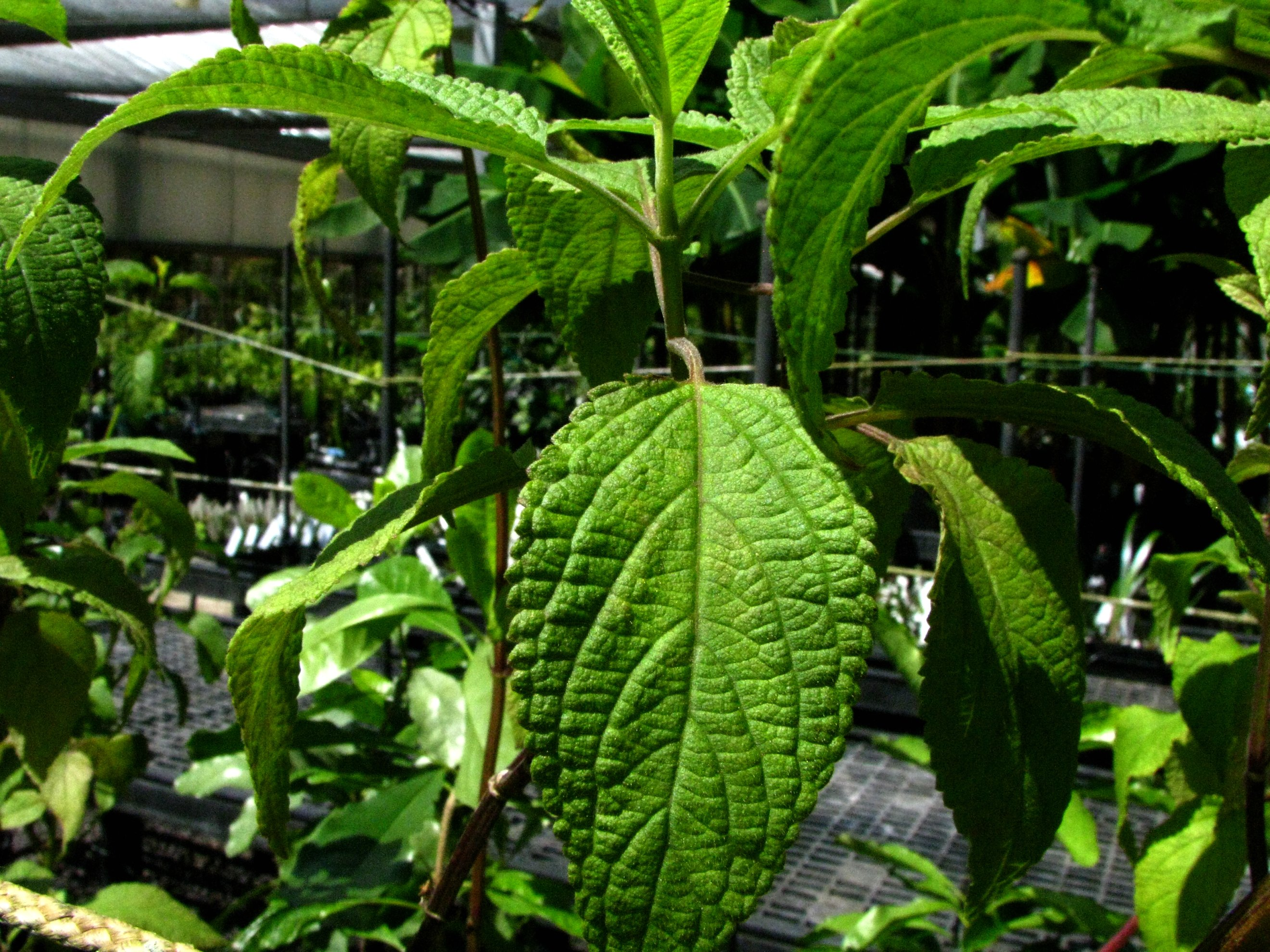 (No known Hawaiian name) Lamiaceae Endemic to the Hawaiian Islands (Kauaʻi only) Uncommon Kauaʻi (Cultivated)